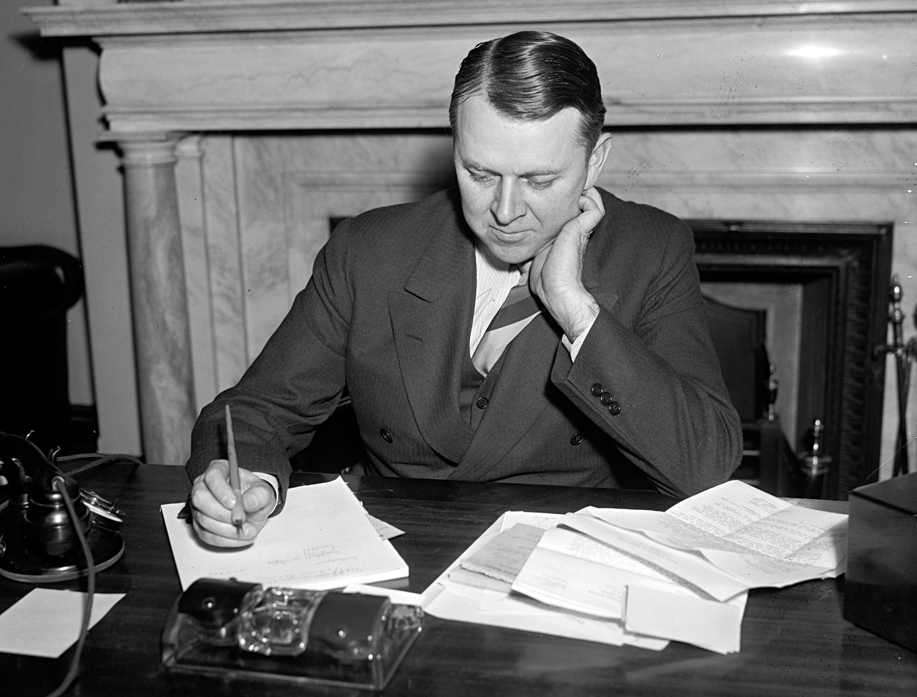 Elmer H. Wene, US Representative from New Jersey